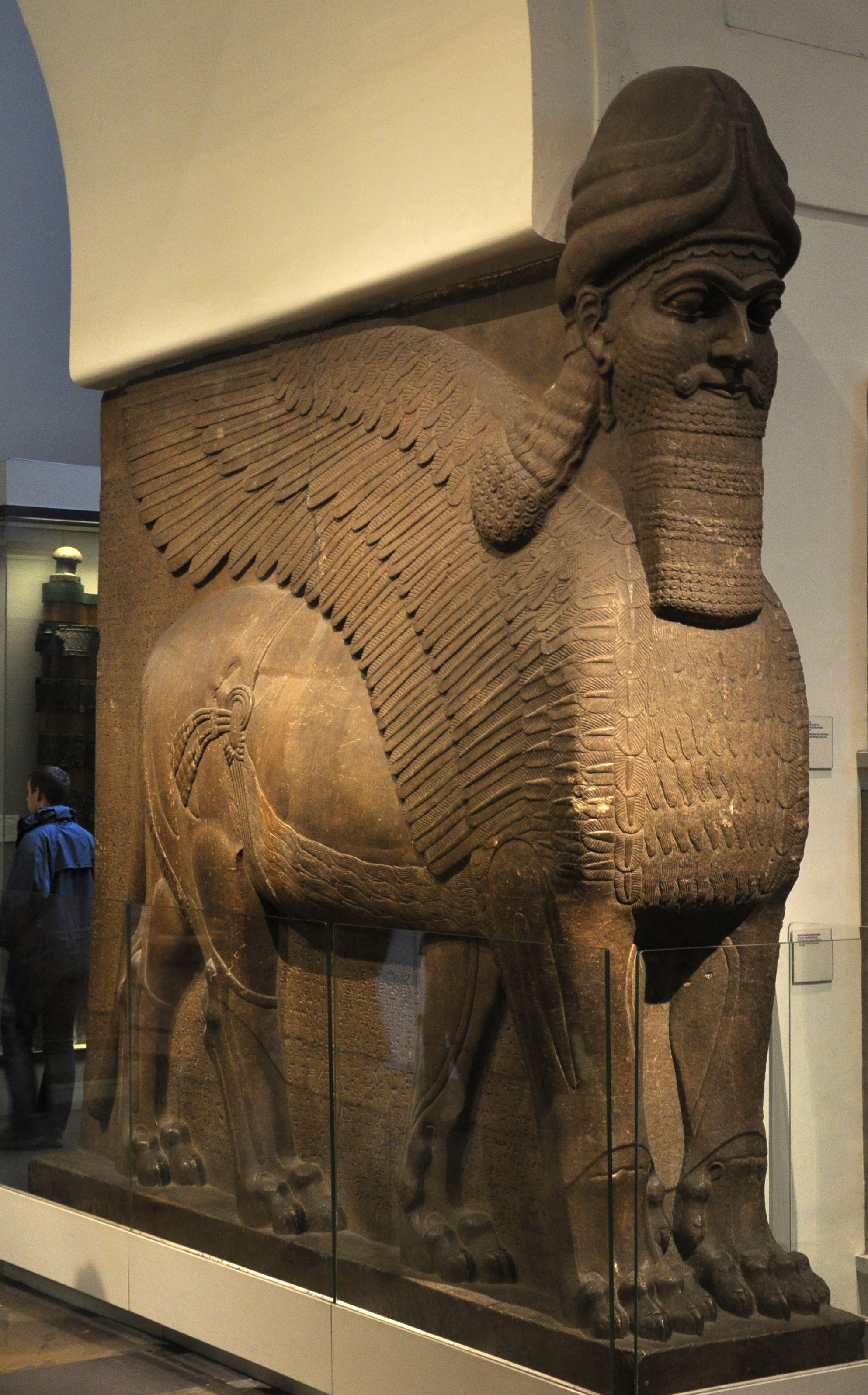 Winged Lion from the North-West Palace of Ashurnasirpal II (Nimrud 883-859 BC). British Museum.